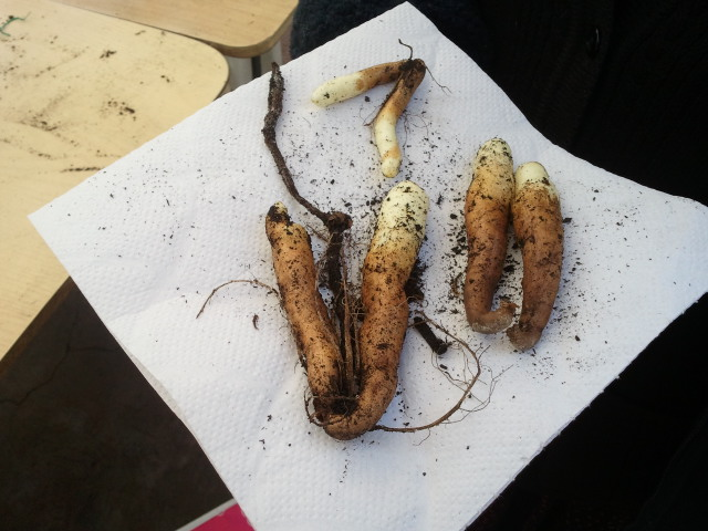 Bulbs of Gloriosa rothschildiana